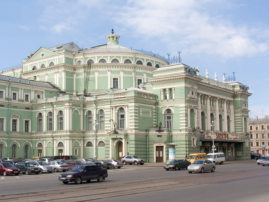 Mariinsky Theatre in Saint Petersburg